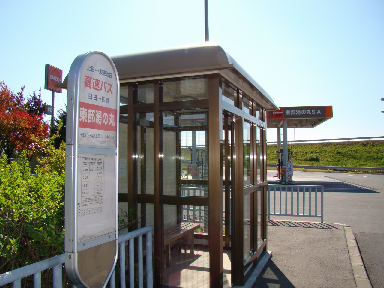 Tobu-Yunomaru Bus Stop on the Joshin-Etsu Expressway for Tokyo